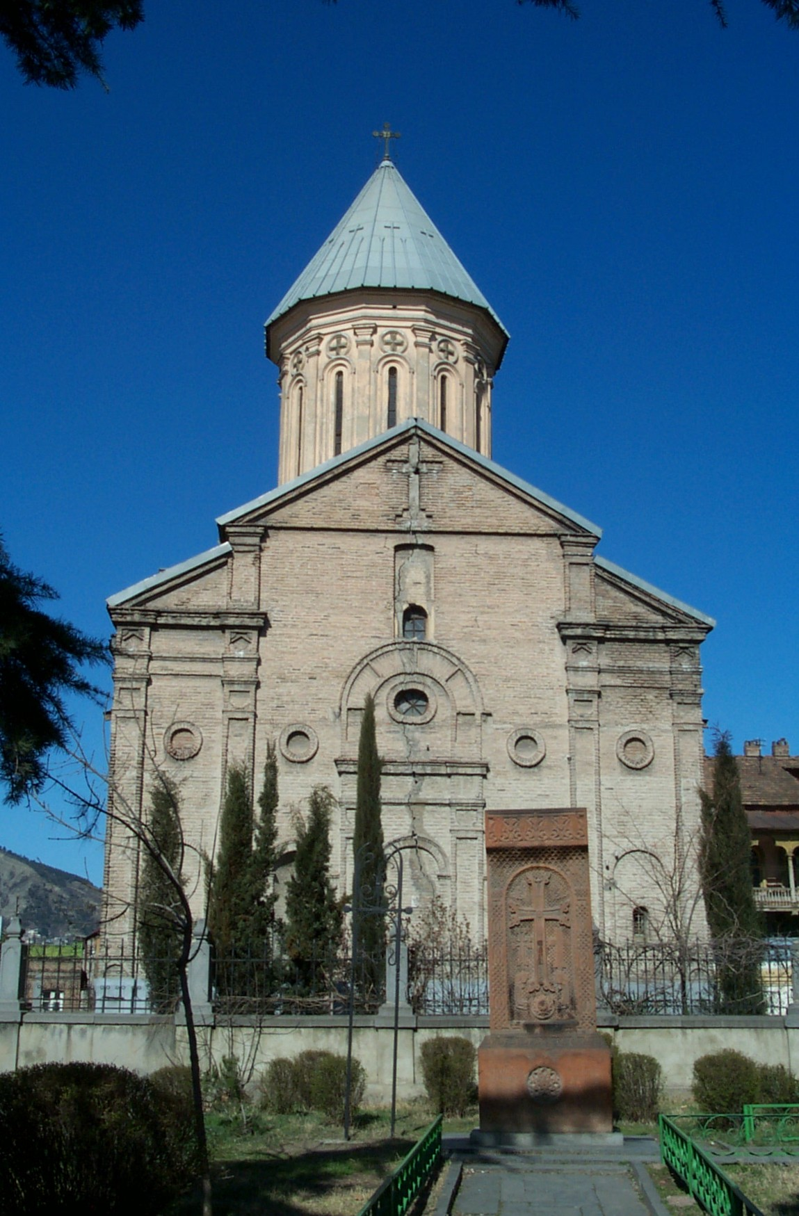 The 18th century Armenian Church of Ejmiatsin in the Avlabari district of Old Tiflis, Georgia.